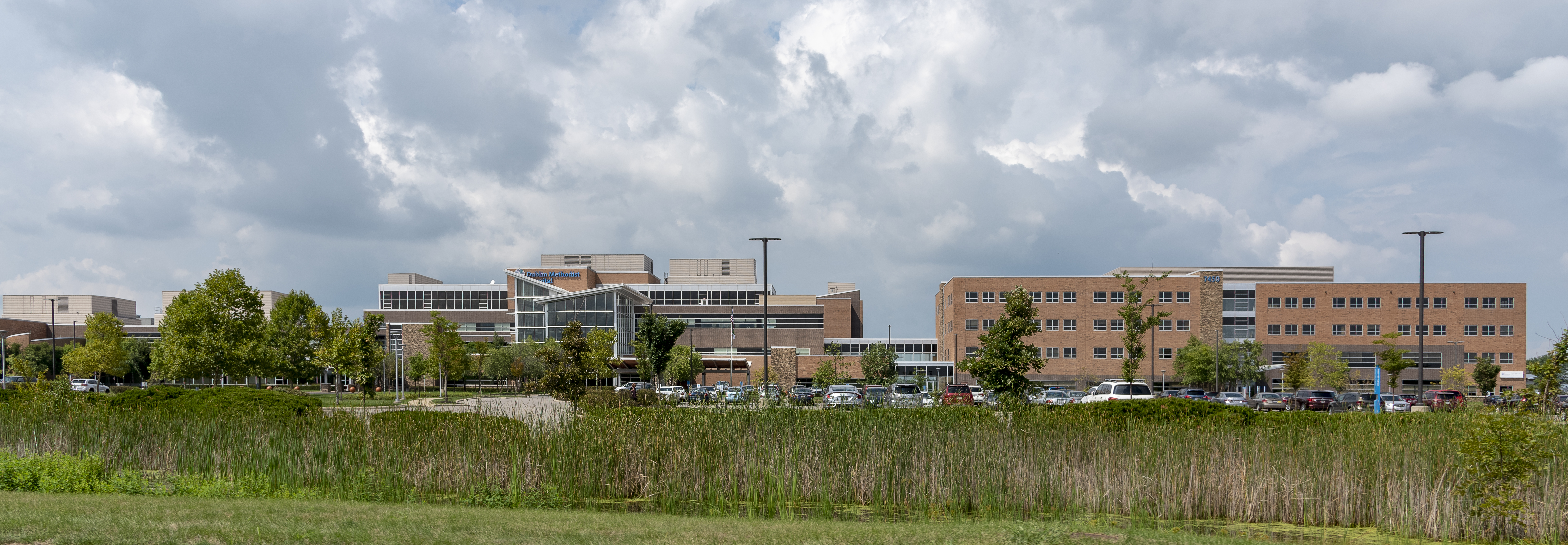 Front profile Dublin Methodist Hospital located in Dublin, Ohio.